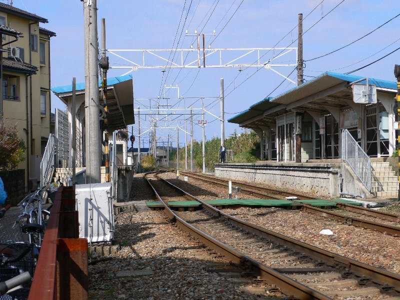 Mitsuya St., Hokuriku Railroad, Ishikawa, Japan.